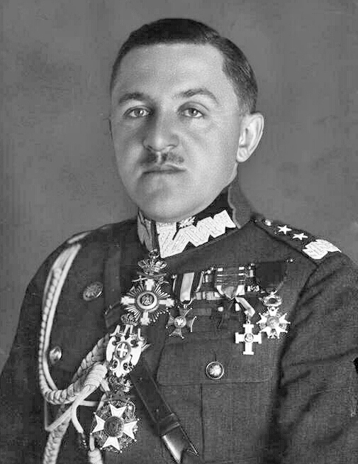 Photo of gen. Tadeusz Piskor.